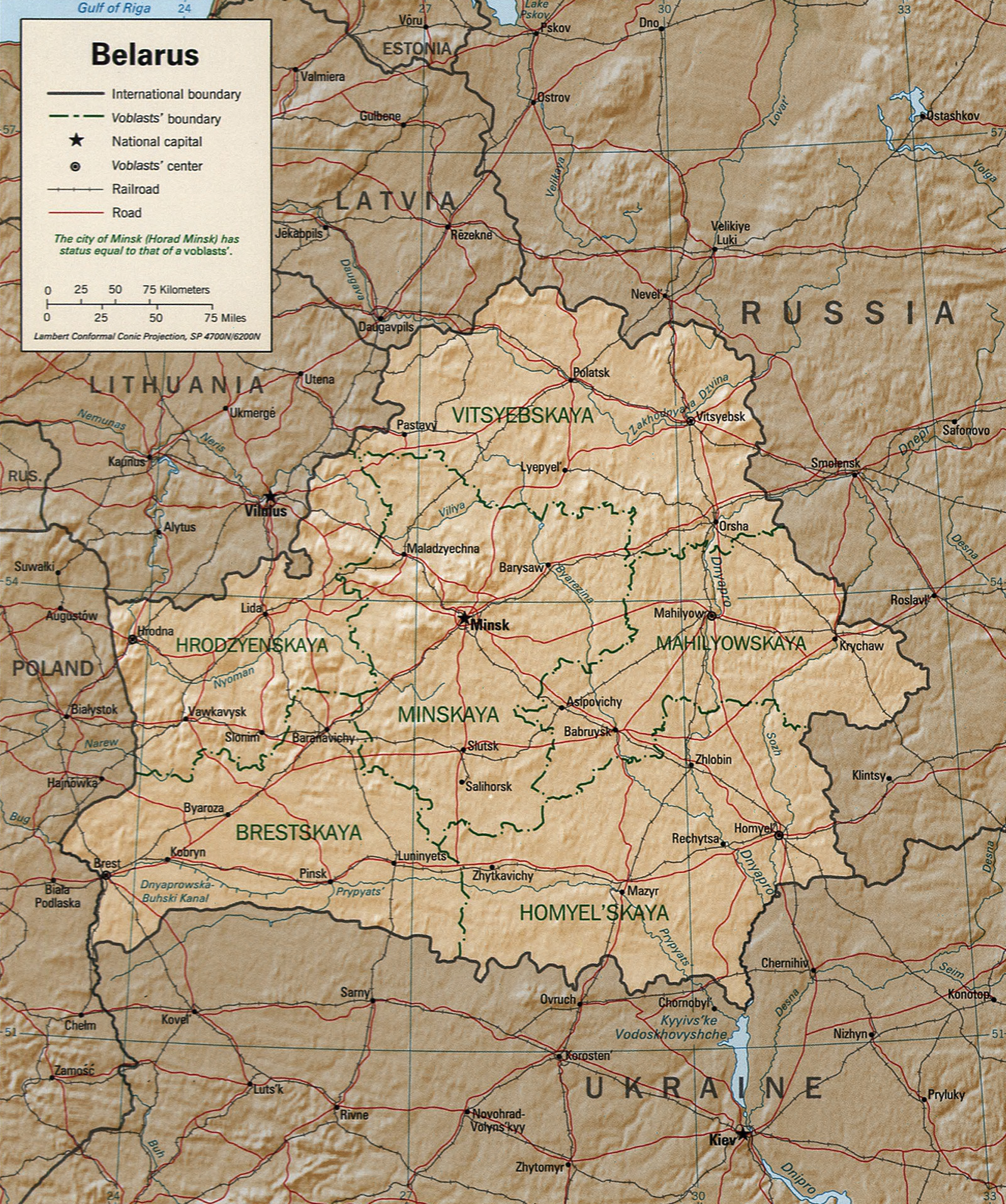 Relief map of Belarus.